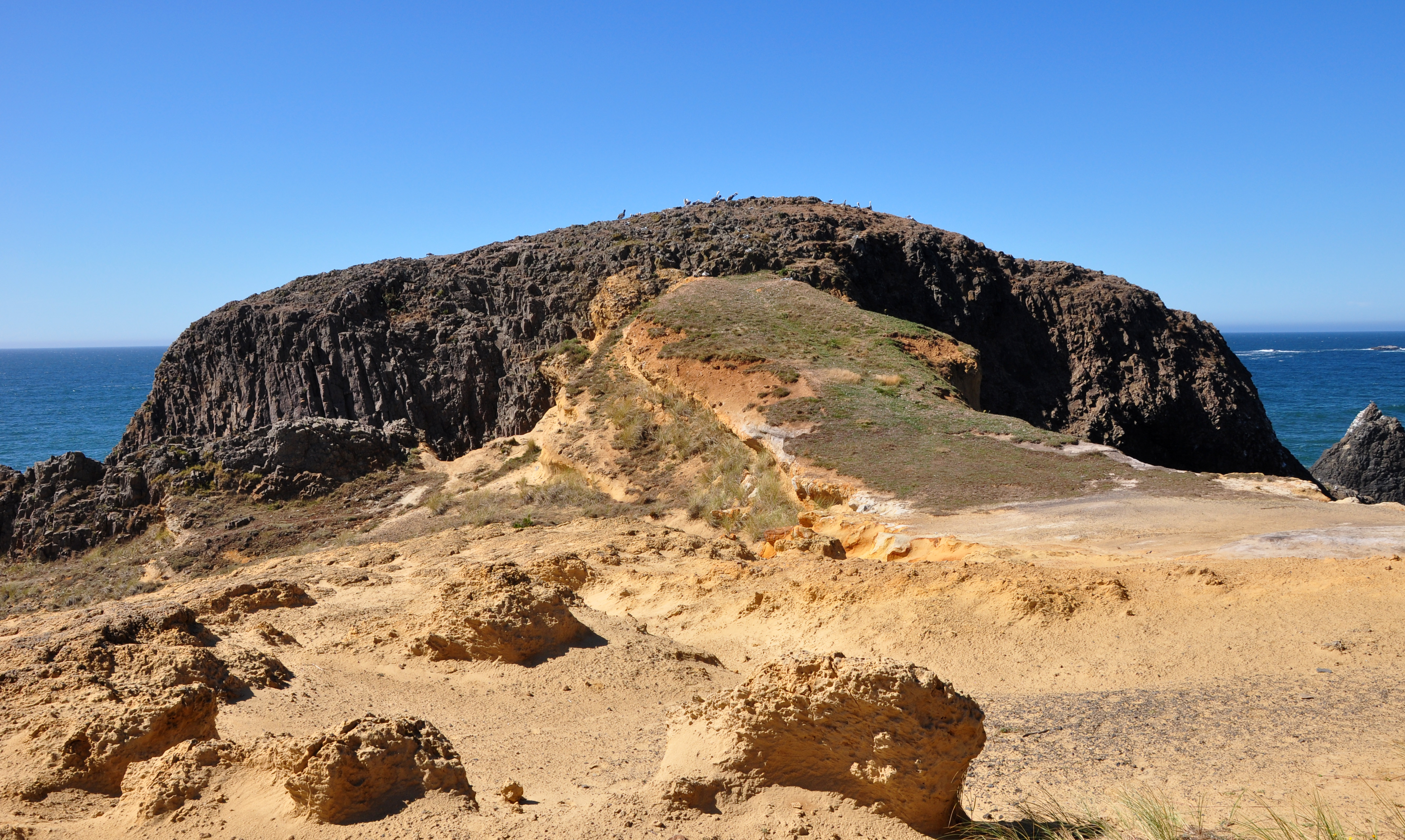 Formation at Seal Rock State Recreation Site, south of Newport, Oregon, in the United States. View is to the west toward the Pacific Ocean. The black rock is a sill of basalt.